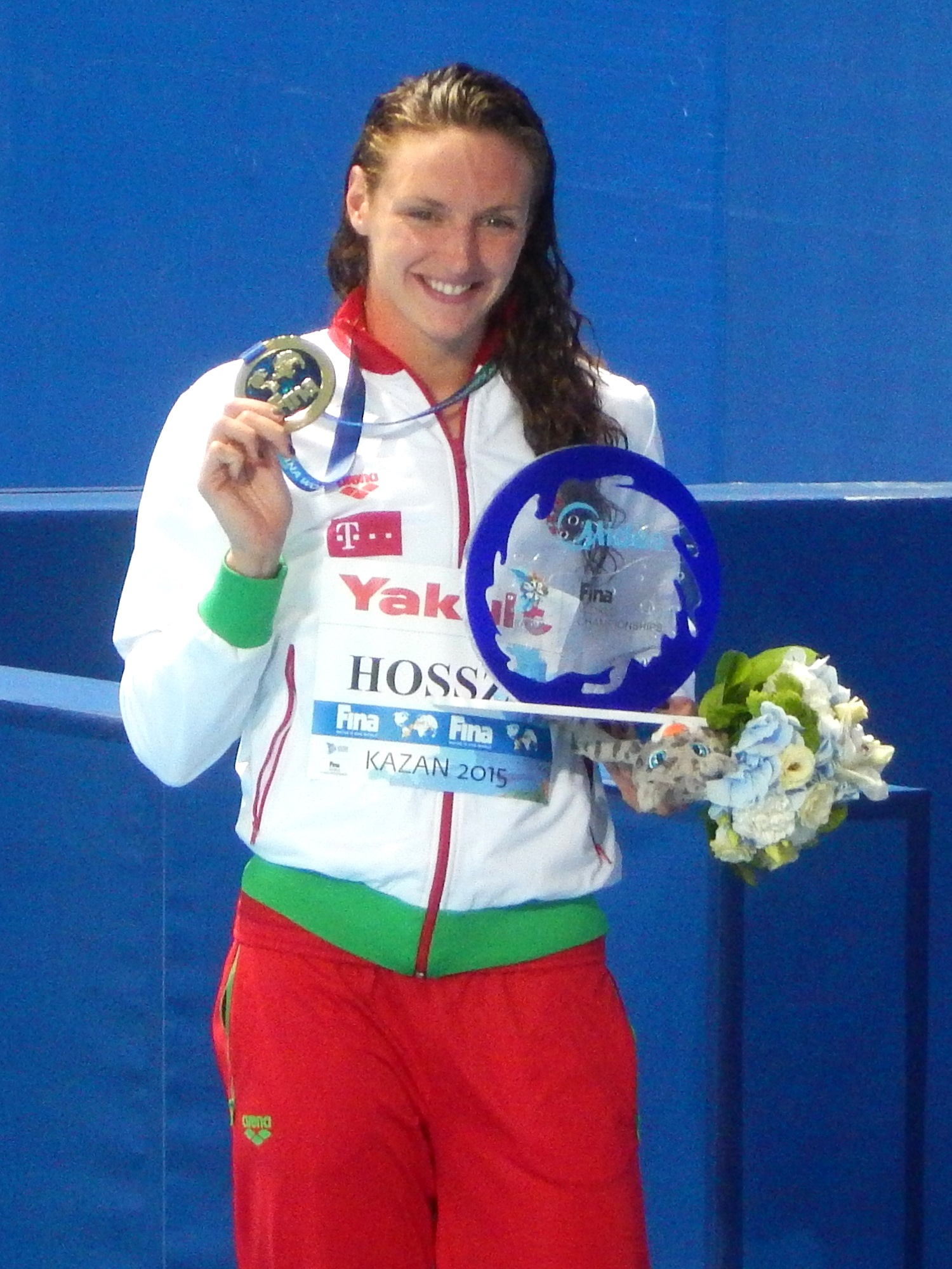 Katinka Hosszú won 200 m individual medley with world record at the 2015 World Aquatics Champs in Kazan